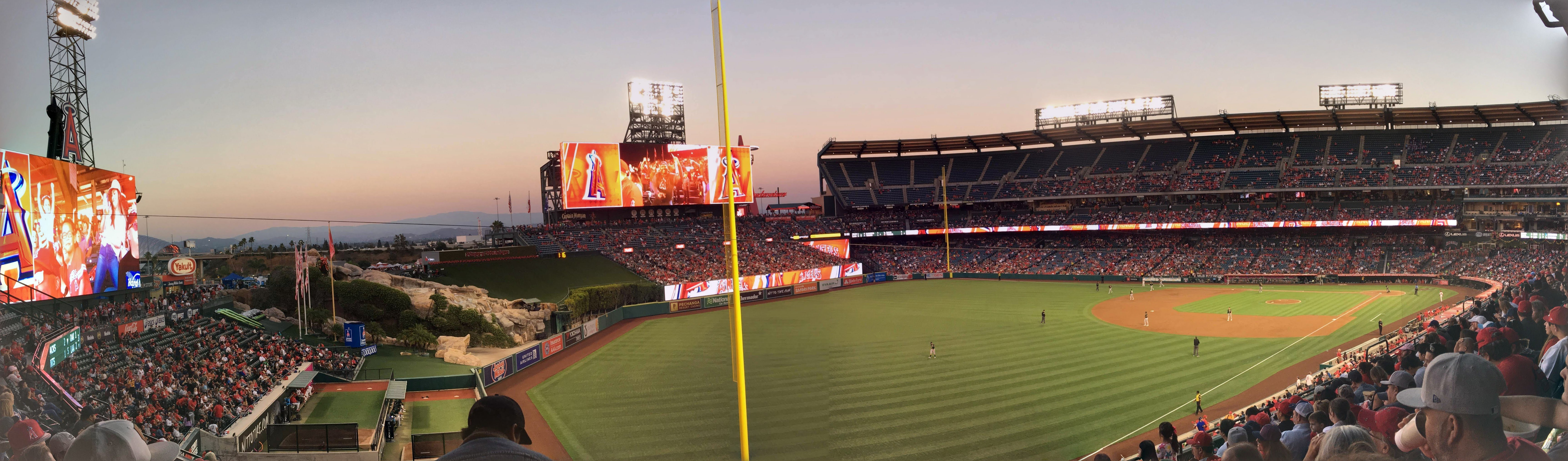 Panorama of Angel Stadium in 2019